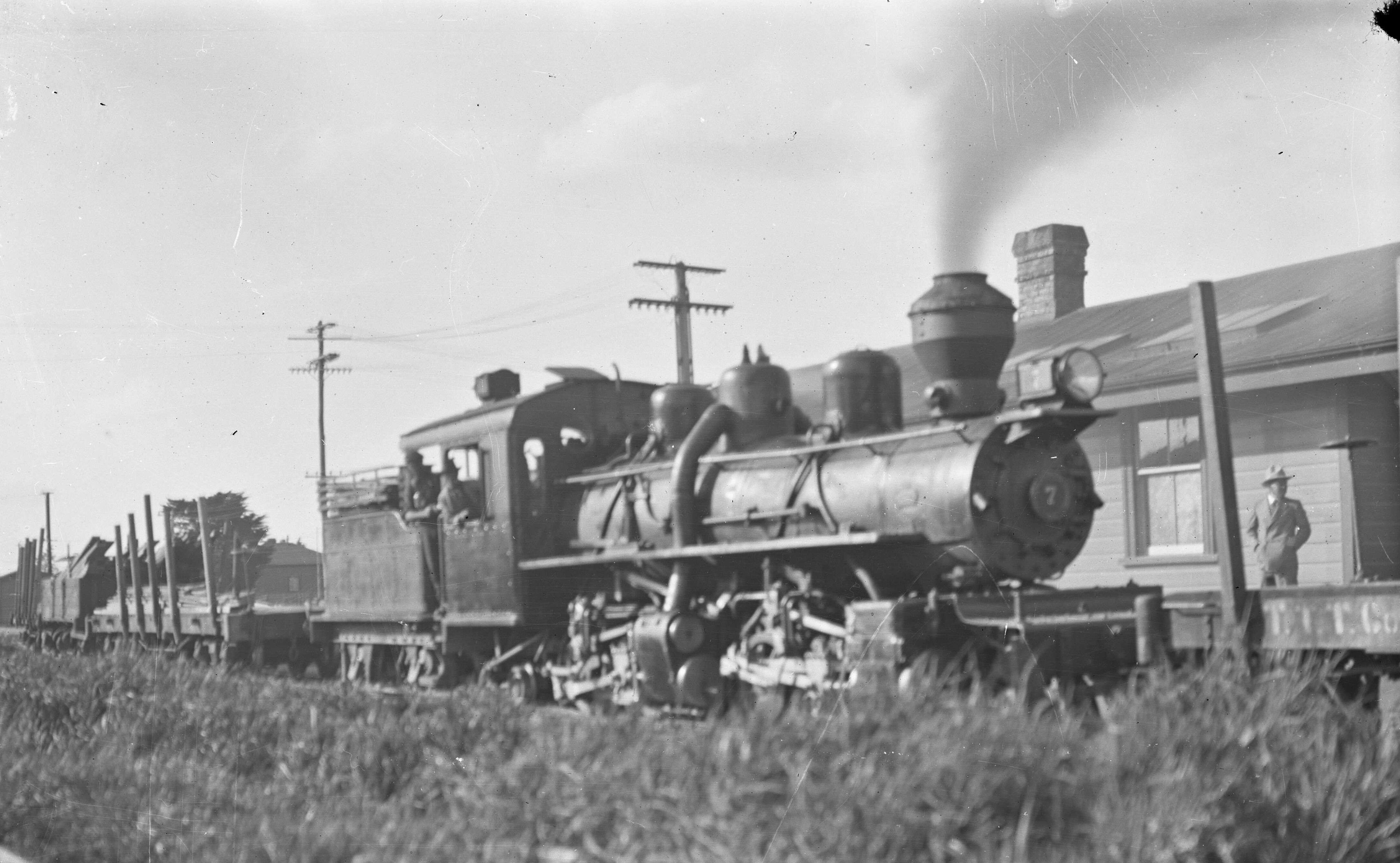 Logging train at a station with a board advertising the Taupo Totara Timber Company. The locomotive is a Mallett locomotive, with the number 7 on the front. Photographed by Albert Percy Godber.